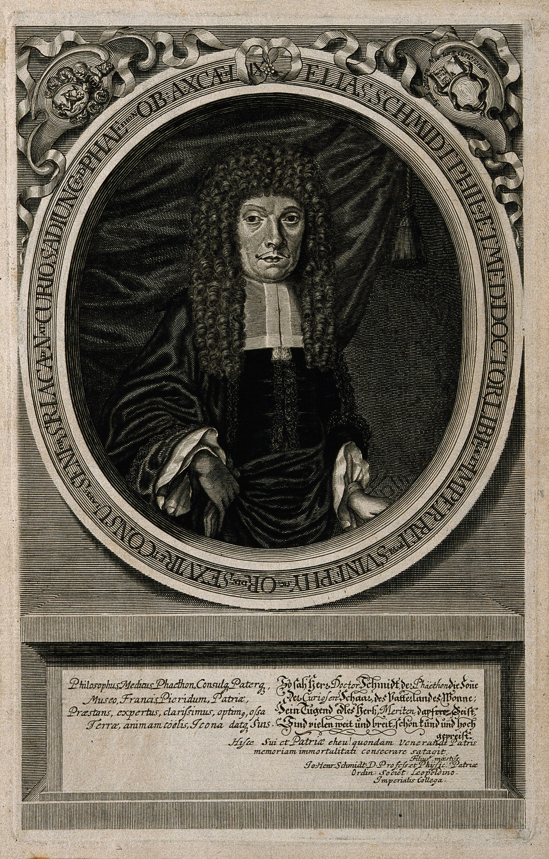 Elias Schmidt. Line engraving by J. C. Böcklin. Iconographic Collections Keywords: portrait prints; Elias Schmidt; engravings